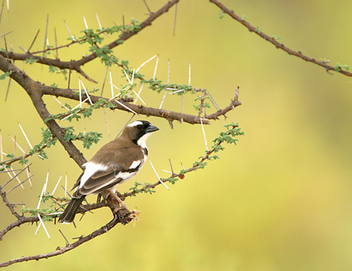 Author - Eleanor Briccetti. Source/URL - Permission - I have received written permission from the photographer to use this photograph under Creative Commons licensing.